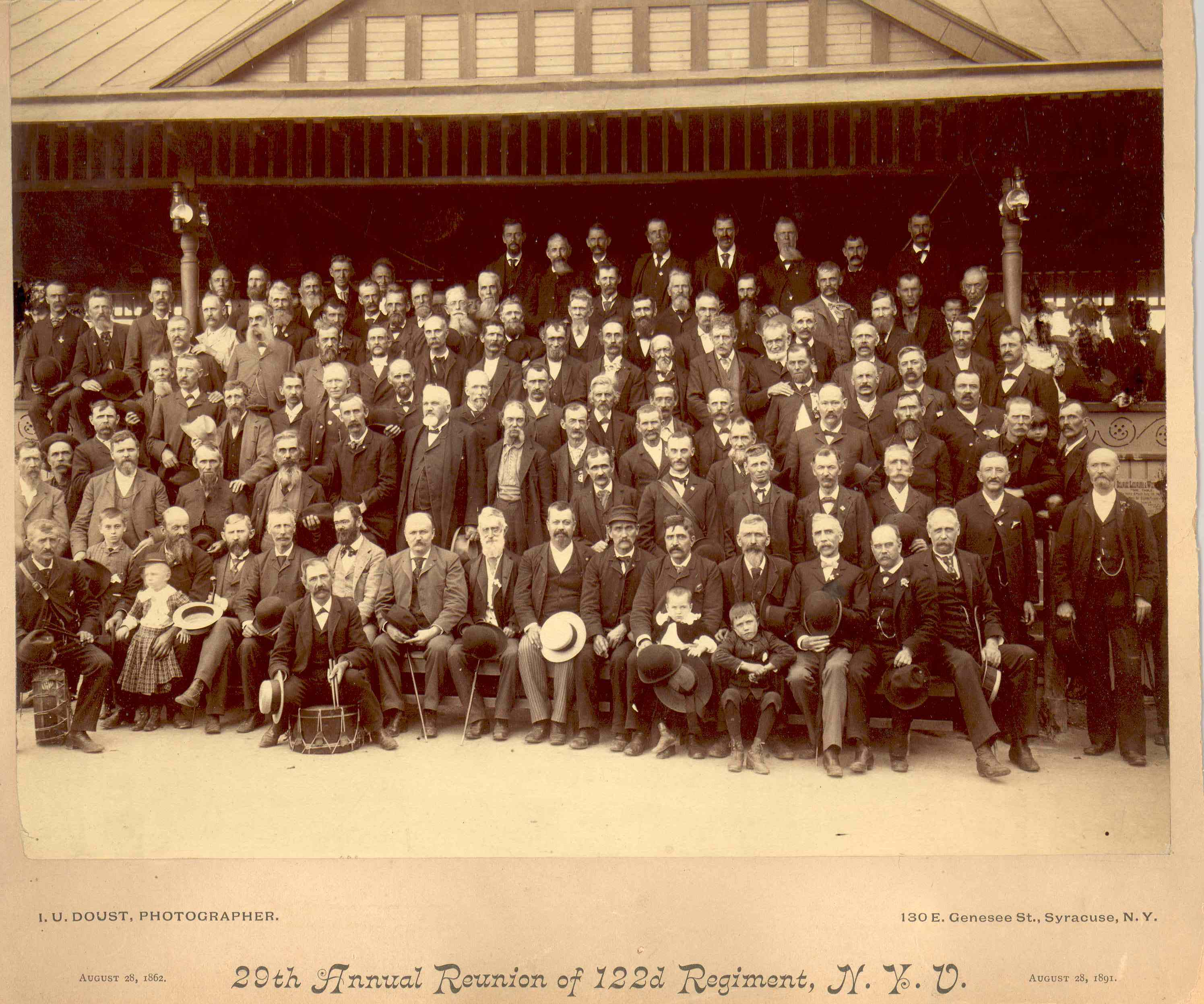 122nd NY Vol. Regiment Reunion, August 28, 1891. From the Leo J. Titus Jr. collection. Note: 29th Annual Reunion of the 122nd New York Volunteer Regiment - August 28, 1891 Silas Titus - front row center